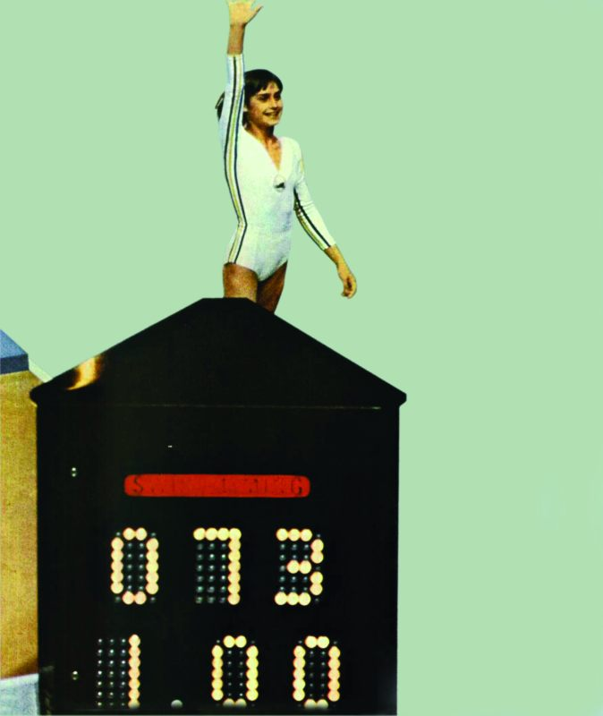 Nadia Comăneci at the 1976 Olympics